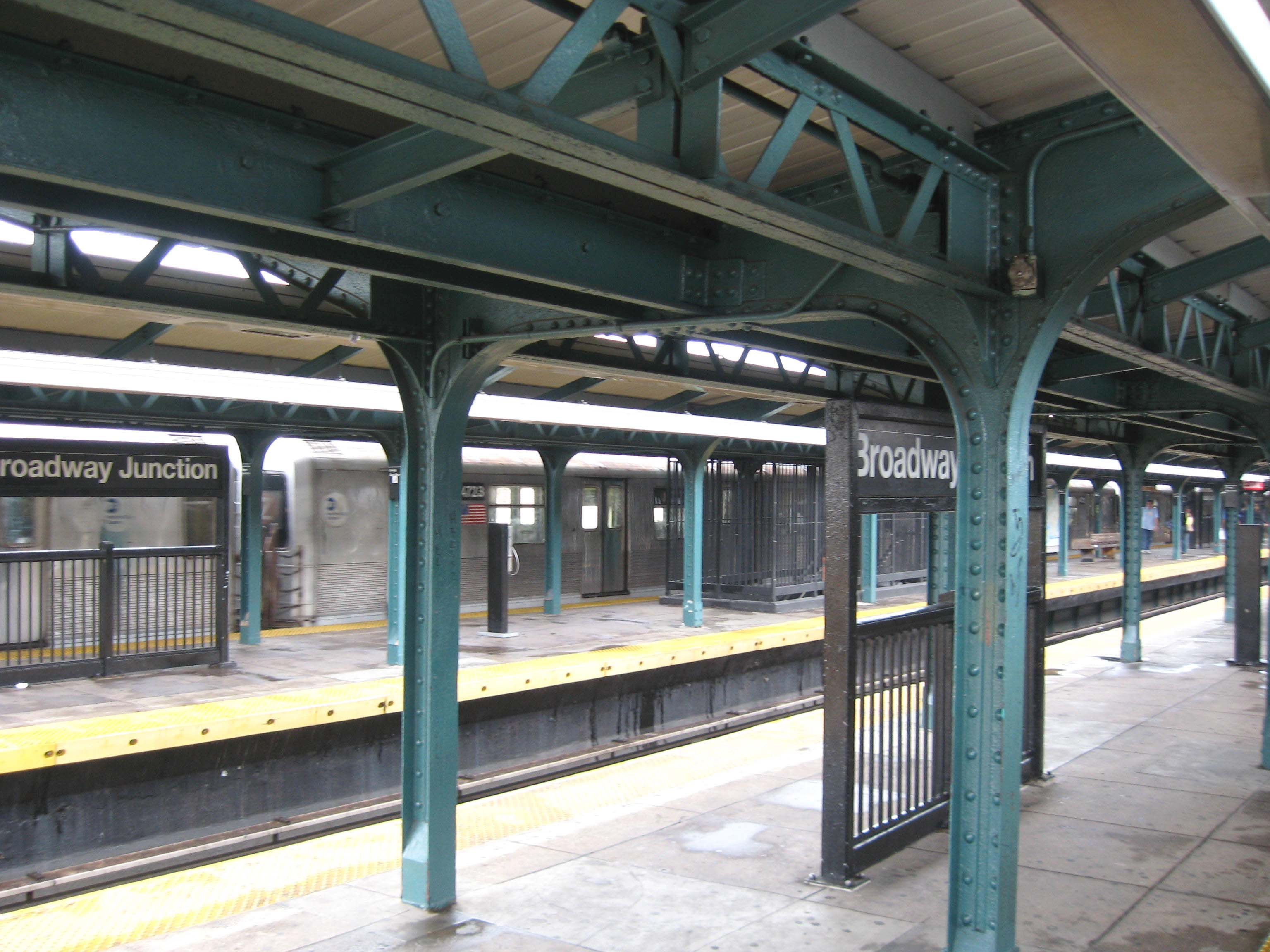 Looking east at western (RR south) part of platforms of Broadway Junction (New York City Subway) on a rainy midday.